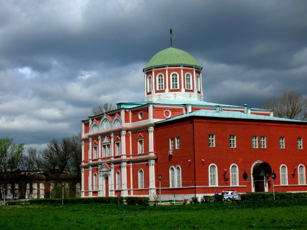 The Weapons Museum — in Tula, Russia. Located inside the former Epiphany Cathedral — Church of the Epiphany at the Tula Kremlin.